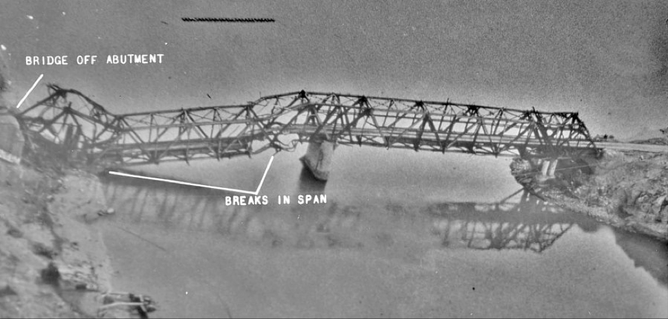 Description: Thanh Hoa bridge after it was hit by laser-guided bombs Permission:"Information presented on the Eglin Public Web Site is considered public information and may be distributed or copied."